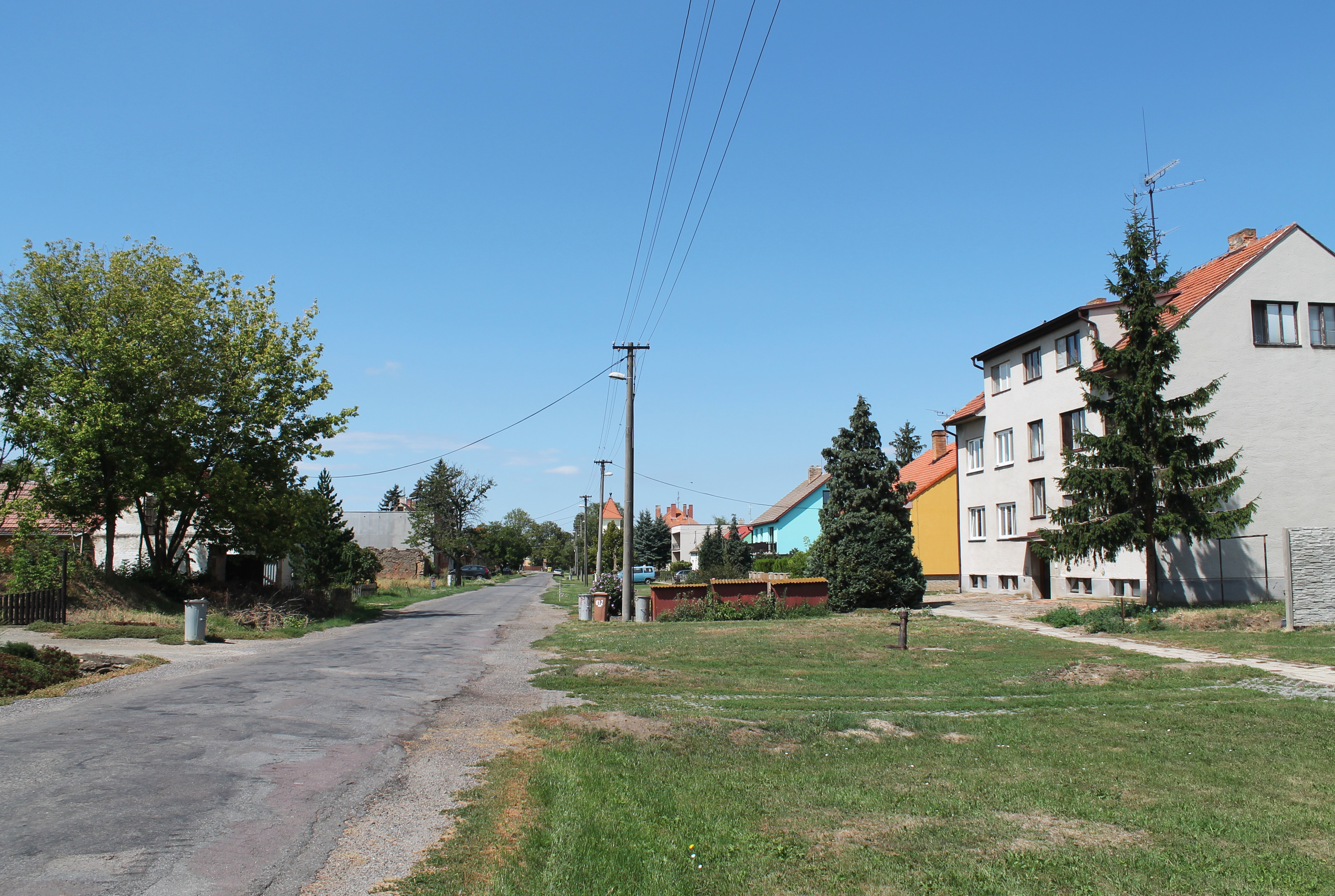 Kašenec, Miroslav, Znojmo District, Czech Republic